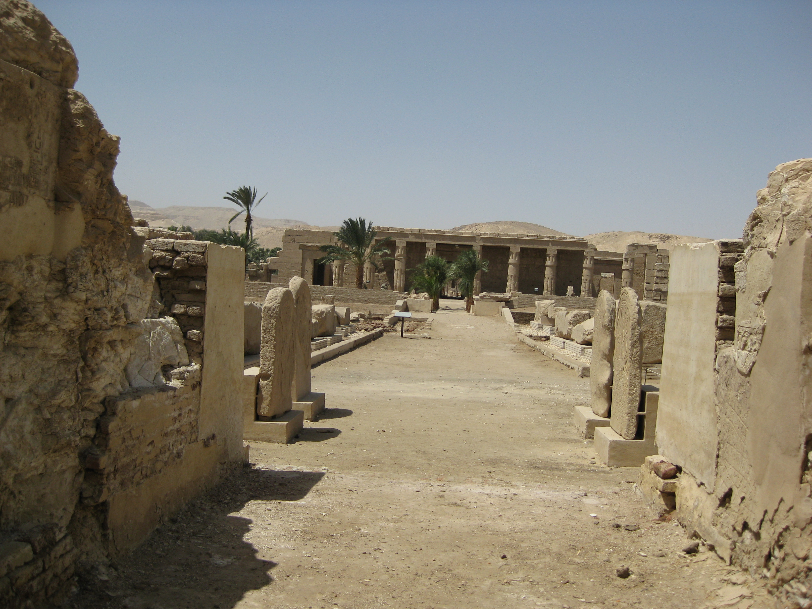 Temple of Seti I